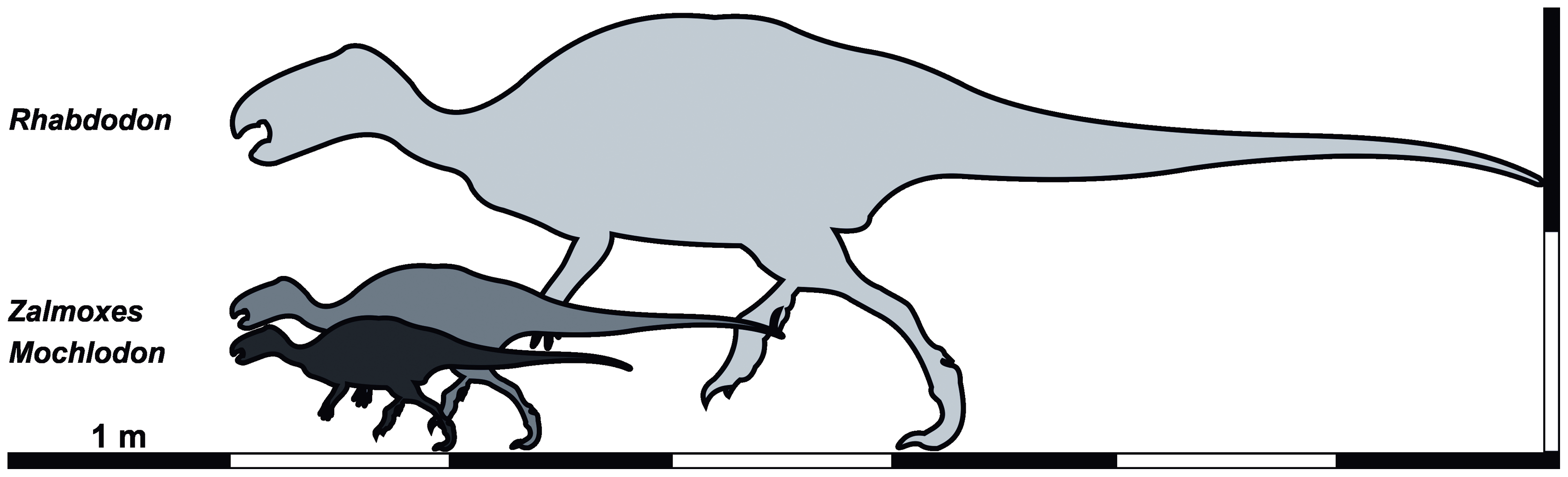 Figure 15: Comparison of histology-based adult body sizes of Mochlodon, Zalmoxes and Rhabdodon represented by the silhouettes of the animals.